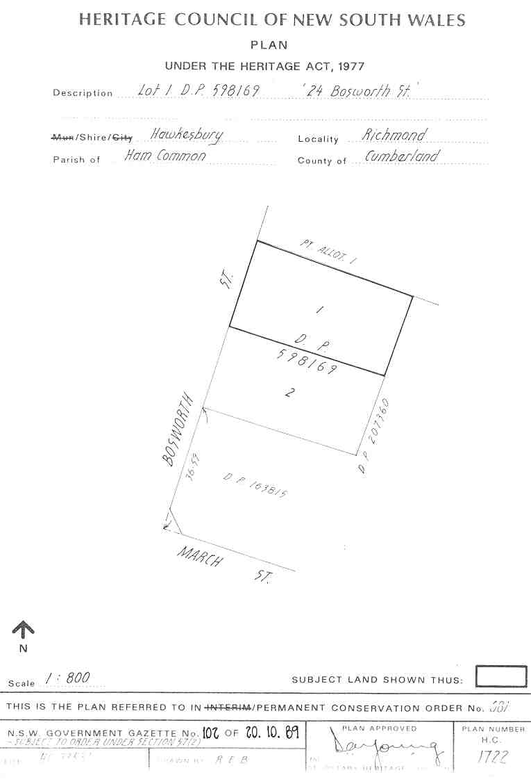 Seymours House: PCO Plan Number 681